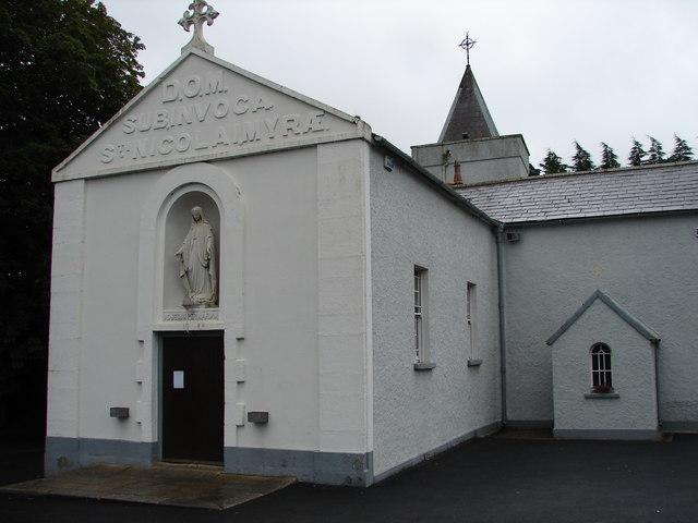 Kinsealy National Schools Buildings, Kinsaley The plaque on the wall of the outbuilding commemorating the establishment of the school in 1839 is spelt Kinsealy rather than Kinsaley.